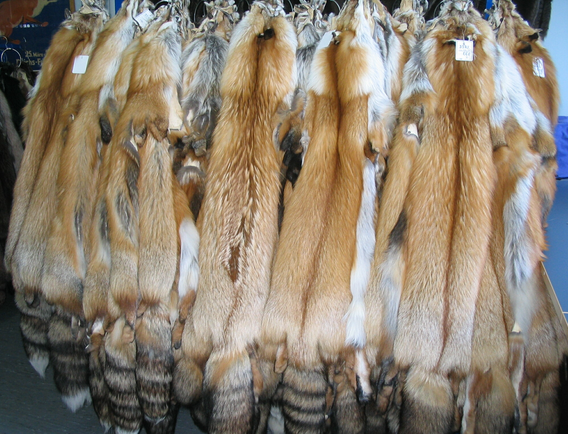 Gold fox fur skins